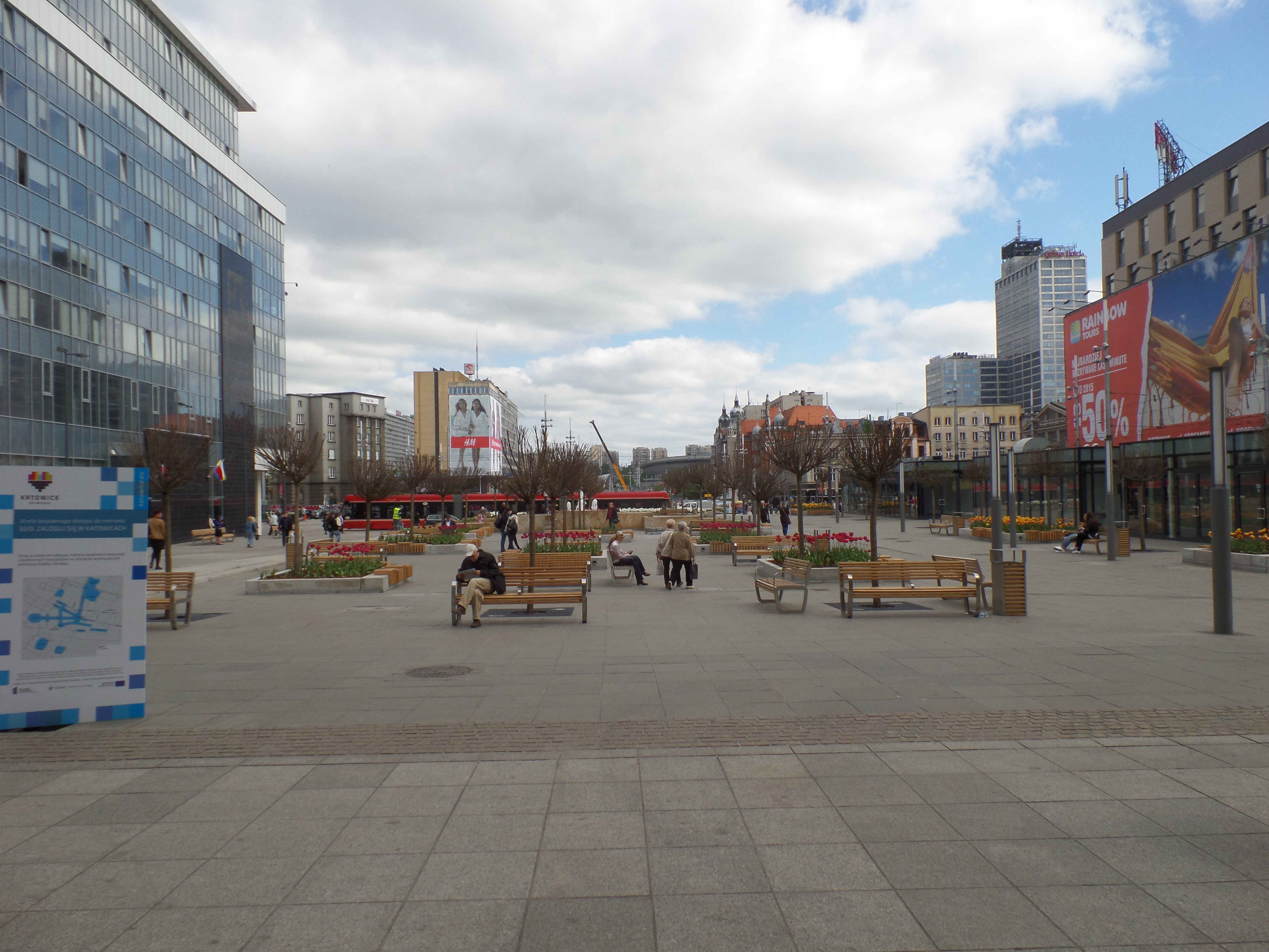 Rynek after the reconstruction